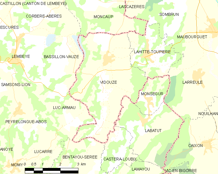 Map of French municipality